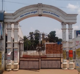 Kumbakonammencollege கும்பகோணம்ஆடவர்கல்லூரி